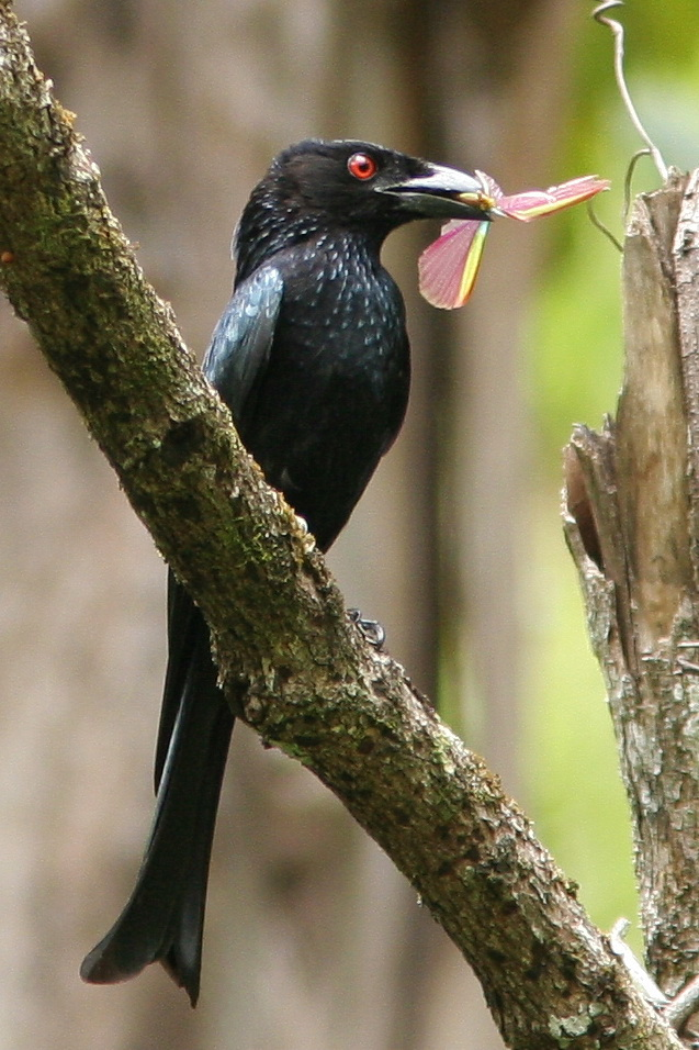 Spangled Drongo, Dicrurus bracteatus, wild bird